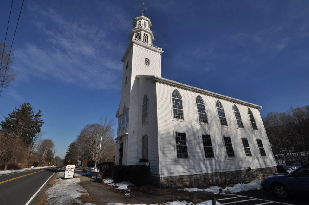 Quaker Farms Historic District, Oxford, Connecticut.